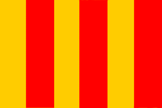 Flag of Faucigny (Haute-Savoie, France).